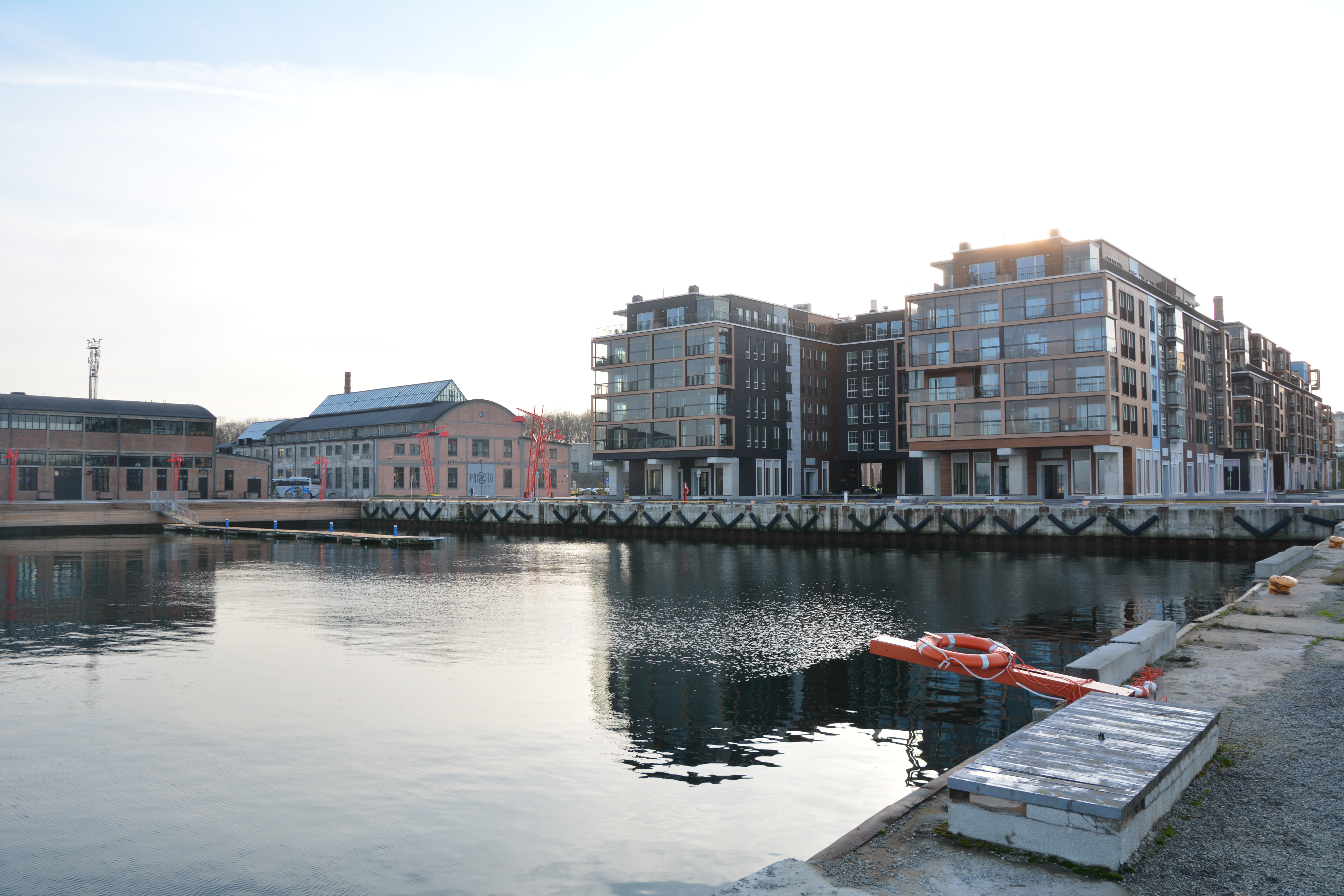 Noblessner Residential area